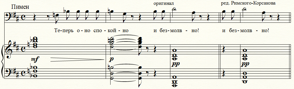 Fragment of 'Boris Godounov' by Mussorgsky showing editorial work of Rimsky-Korsakov